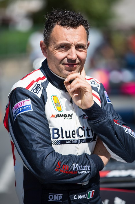 Italian race driver Christian Merli - Portrait; Year:2017 - Place: Ecce Homo Šternberk